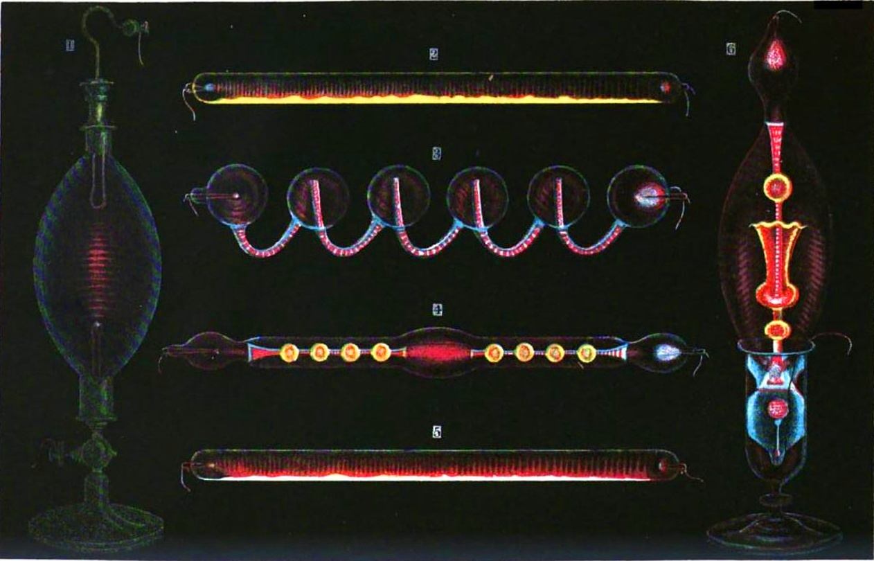 Color drawing of Geissler tubes lit by their own light, from an 1869 French natural philosophy book, showing some of the many fanciful shapes and colors. They were powered by high voltage from an induction coil. Invented by German glassblower Heinrich Geissler in 1857, Geissler tubes were the first gas discharge tubes and were manufactured for entertainment. Around 1910 they evolved into the first neon lights. Caption: "Electric discharge in rarefied gasses: 1.Discharge in Vapor of Alcohol. (2.3.4.5.Geissler's tubes enclosing rarefied gasses) 2.Shows Fluorescence of Sulphuret of Calcium, 4.Fluorescence of Uranium glass, 5.Shows Fluorescence of Sulphuret of Strontium, 6.Fluorescence of Uranium glass and Sulphate of Quinine".